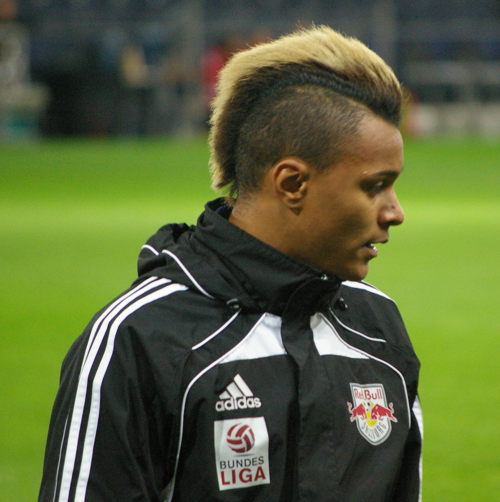 league match Austrian Bundesliga